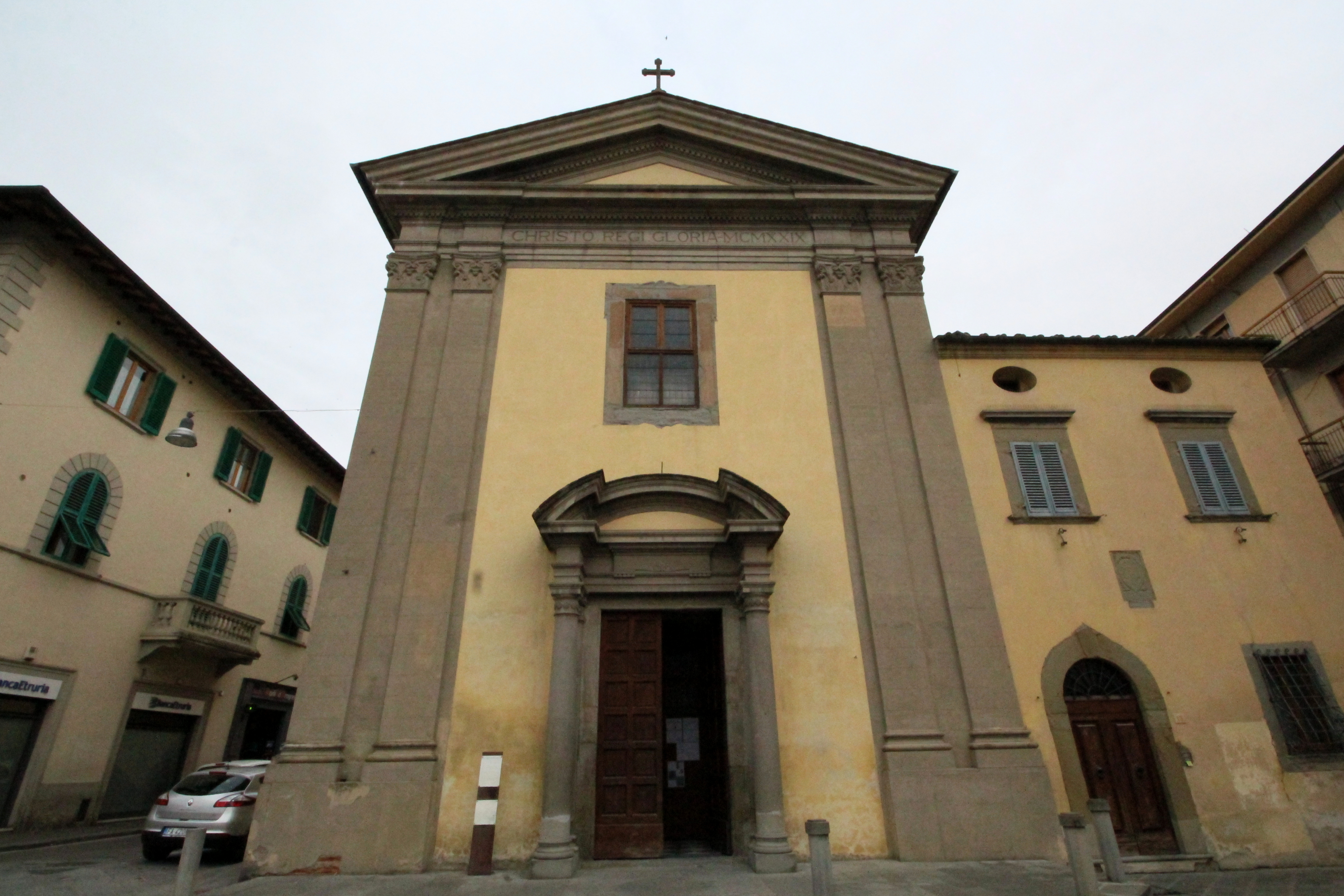 Church Santa Maria Bambina, center square of Terranuova Bracciolini, Province of Arezzo, Tuscany, Italy